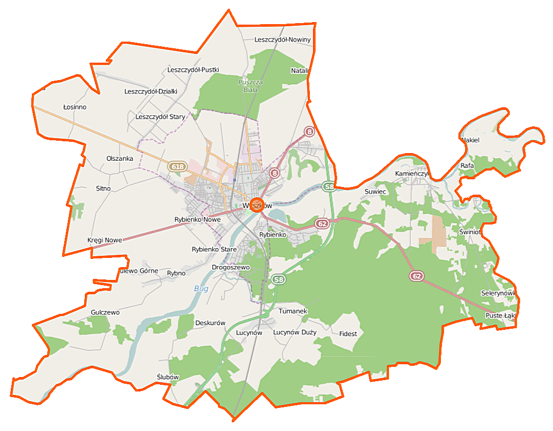 Map of Gmina Wyszków, Poland This map of Wyszków (gmina) was created from OpenStreetMap project data, collected by the community. This map may be incomplete, and may contain errors. Don't rely solely on it for navigation. Border coordinates52.659521.3207←↕→21.616352.5194